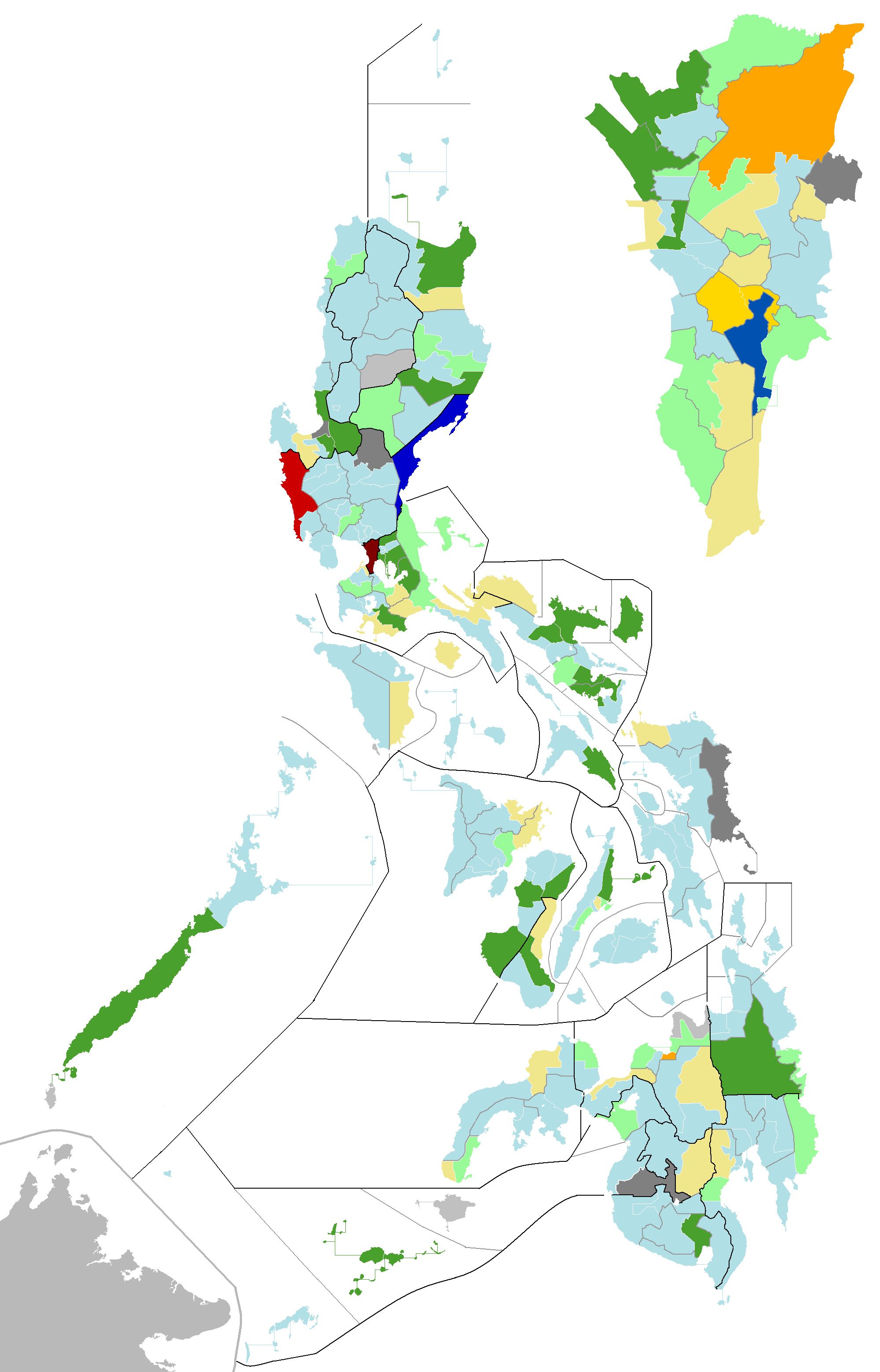 w:14th Congress of the Philippines.png